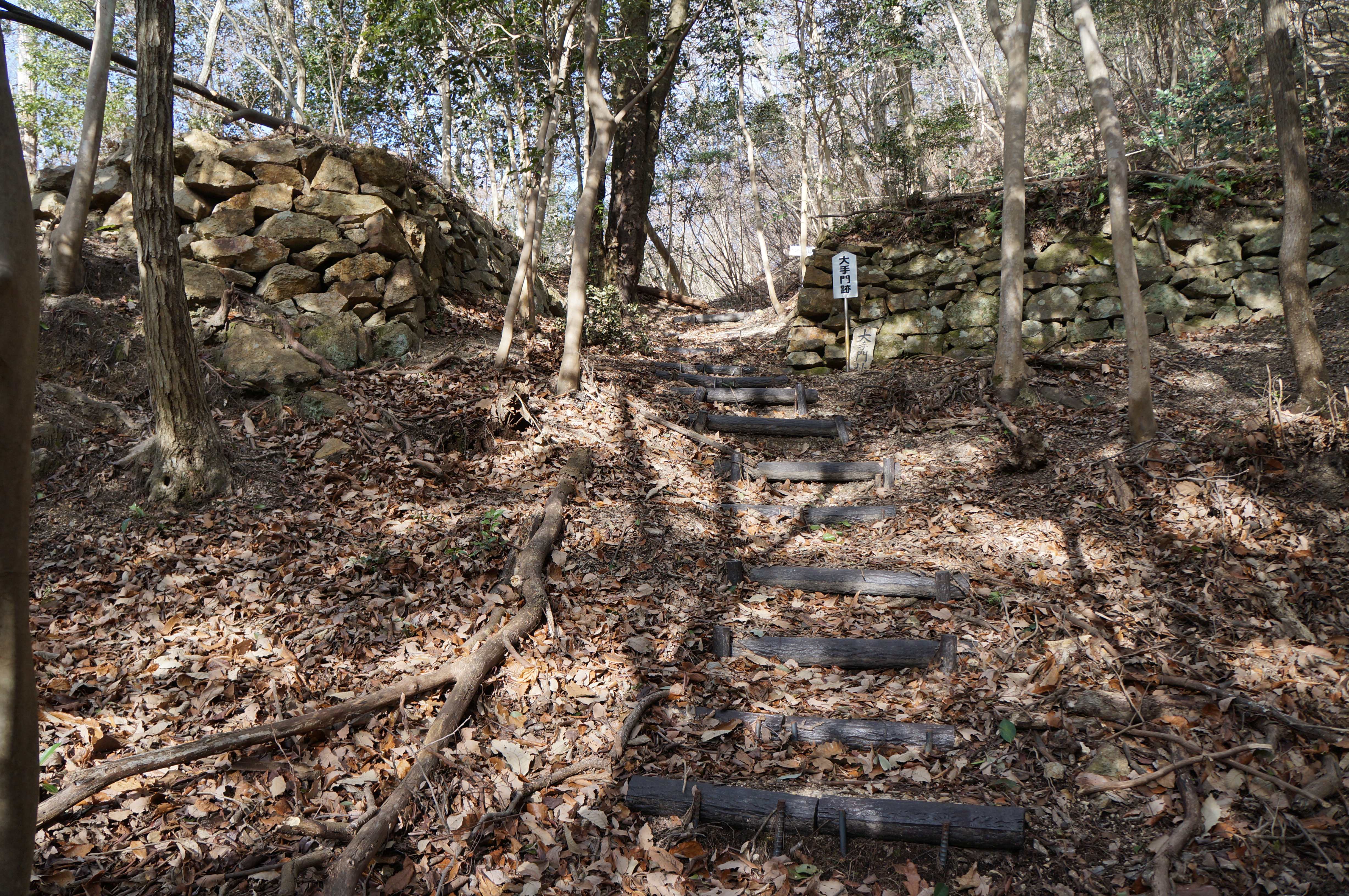 Site of Ote-mon gate, Mitsuishi castle